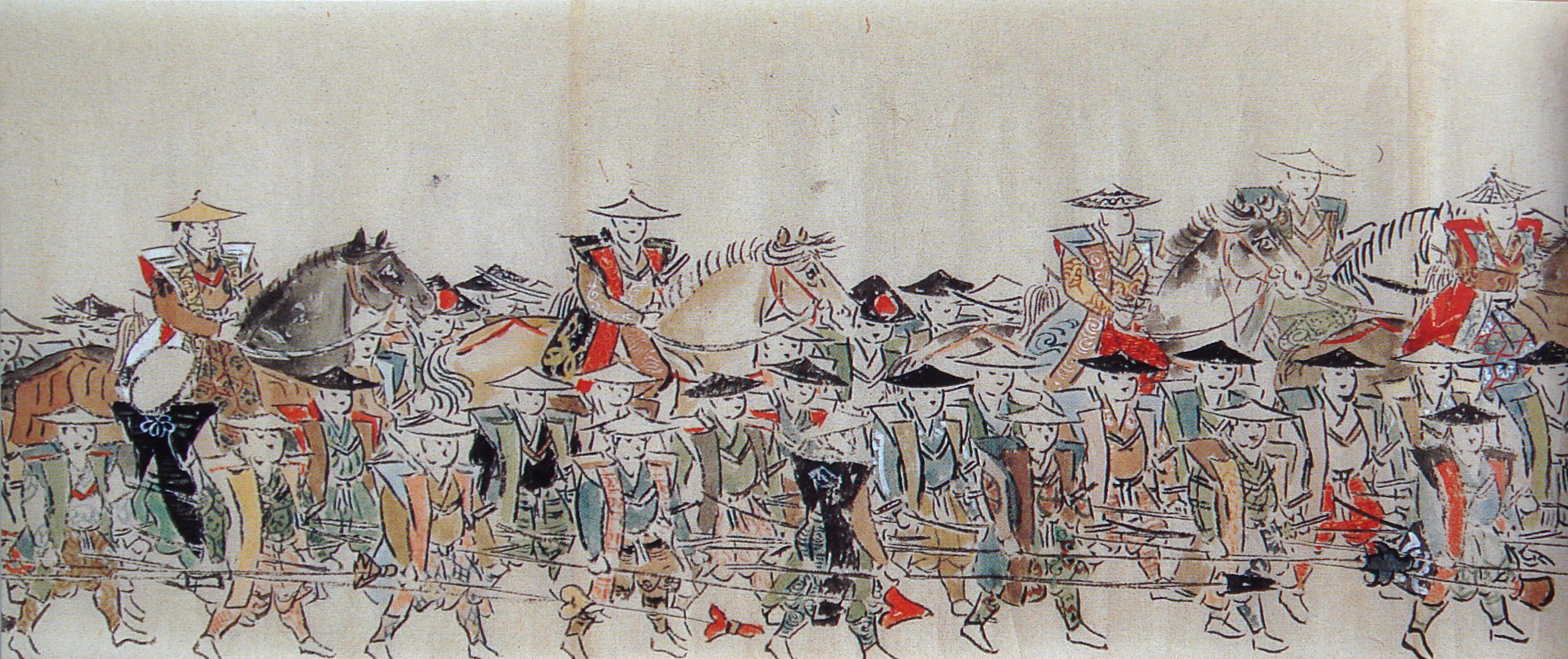 Samurai_troops_in_the_Second_Choshu_expedition